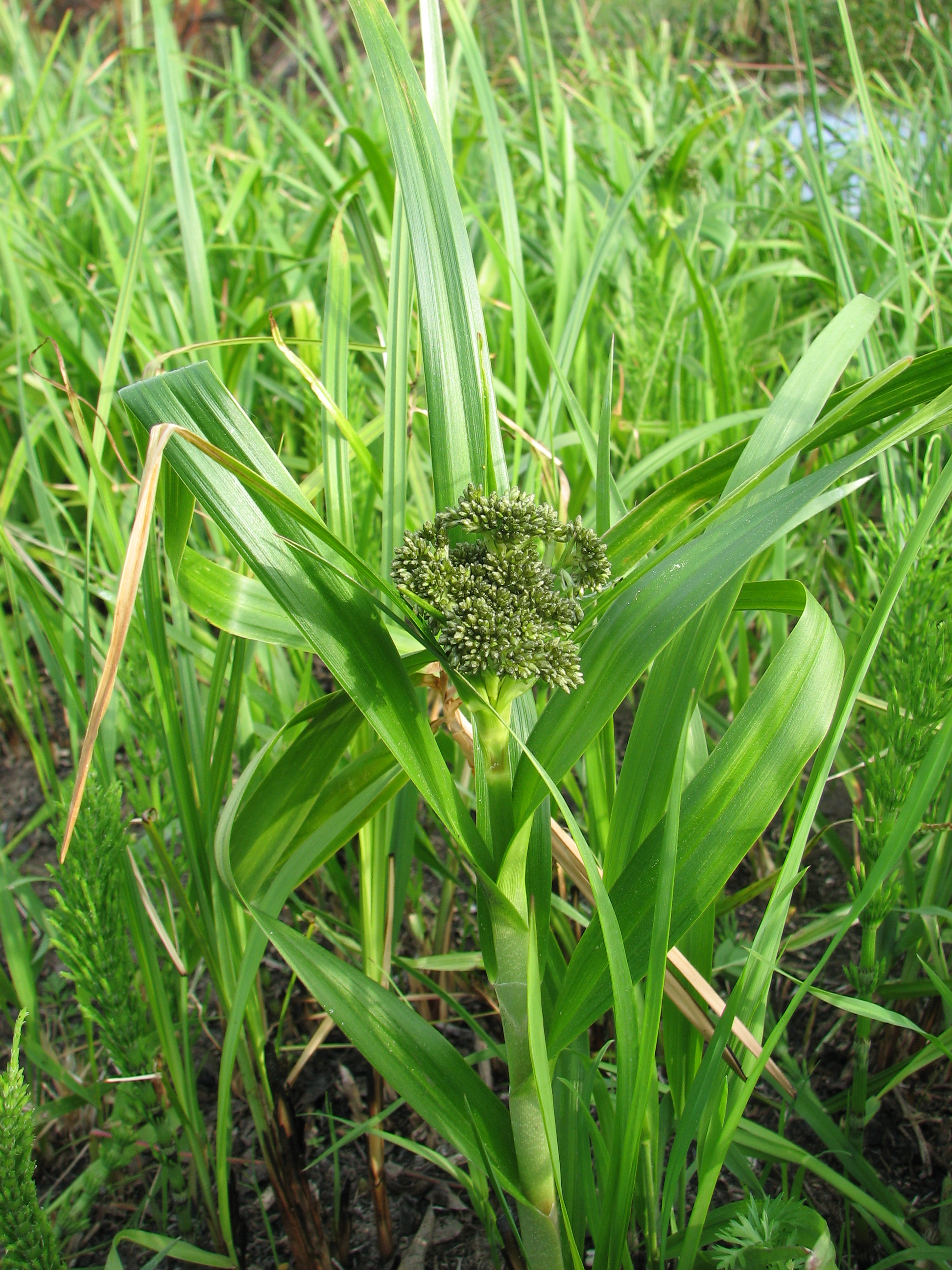 Scirpus sylvaticus